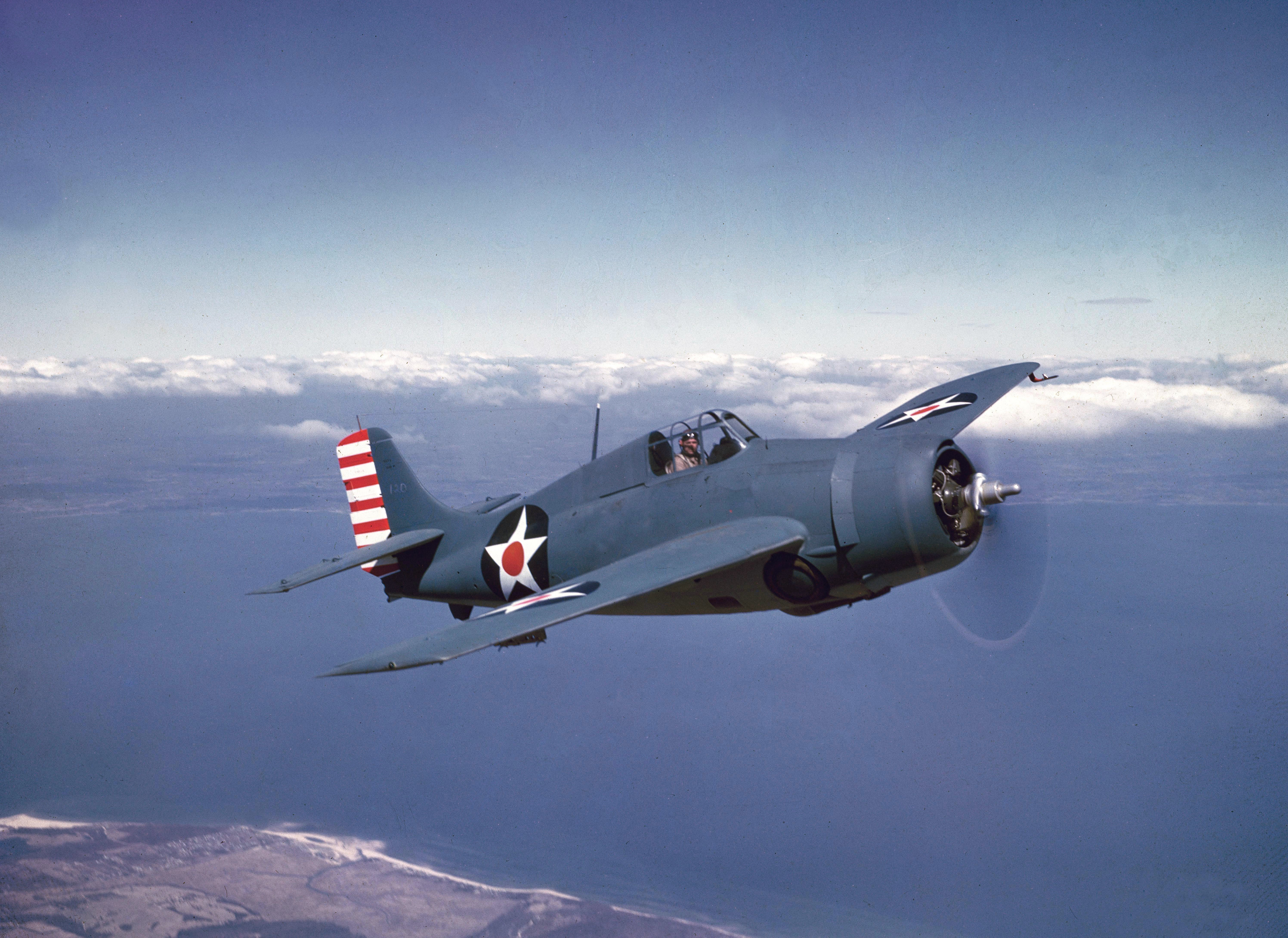 A U.S. Navy Grumman F4F-3 in non-specular blue-grey over light-grey scheme in early 1942. Note modified pitot tube of the later F4F-4 model, moved from the leading edge of the wing to an L-style mount under the wing.